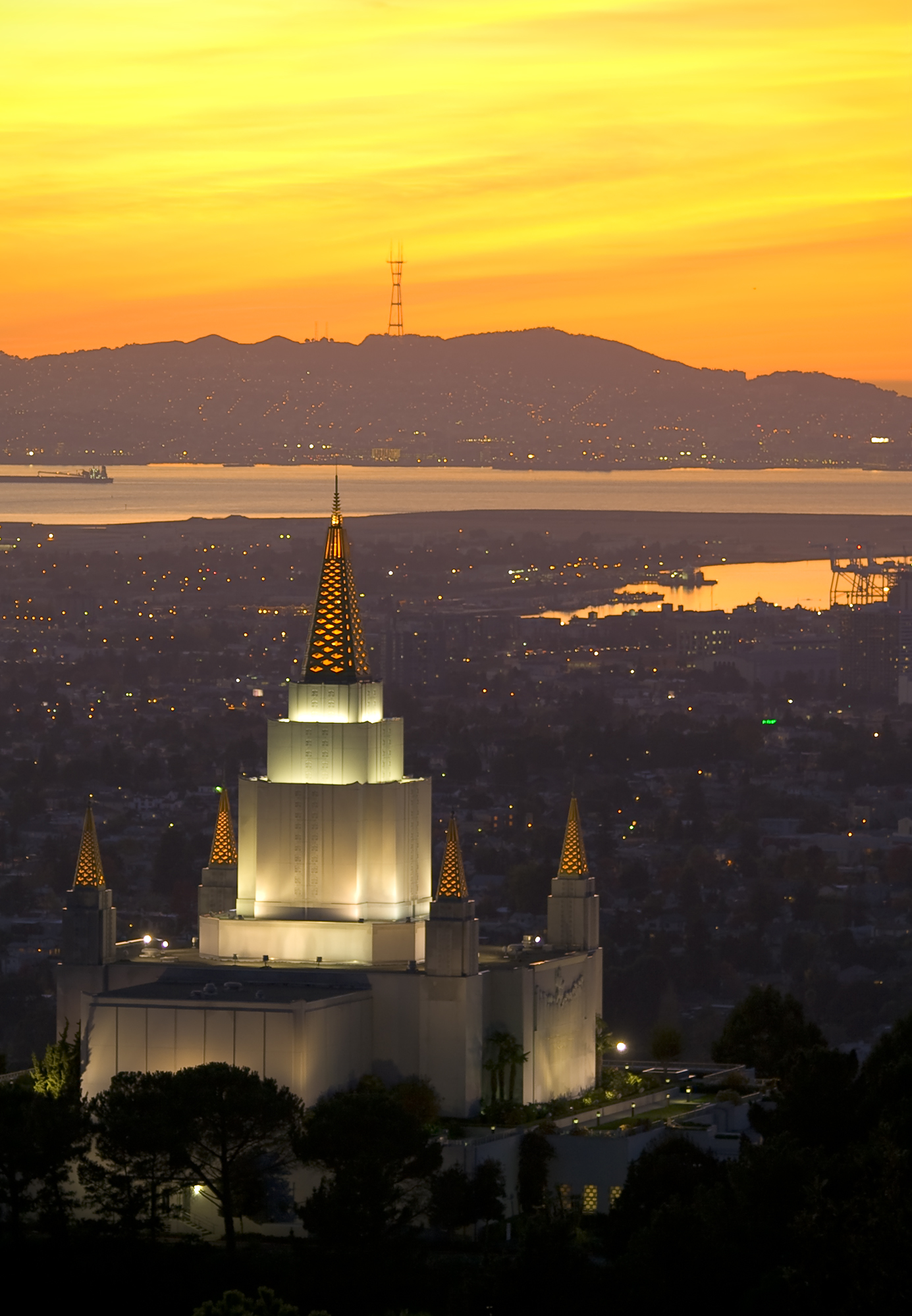 The Oakland California Temple of The Church of Jesus Christ of Latter-day Saints.